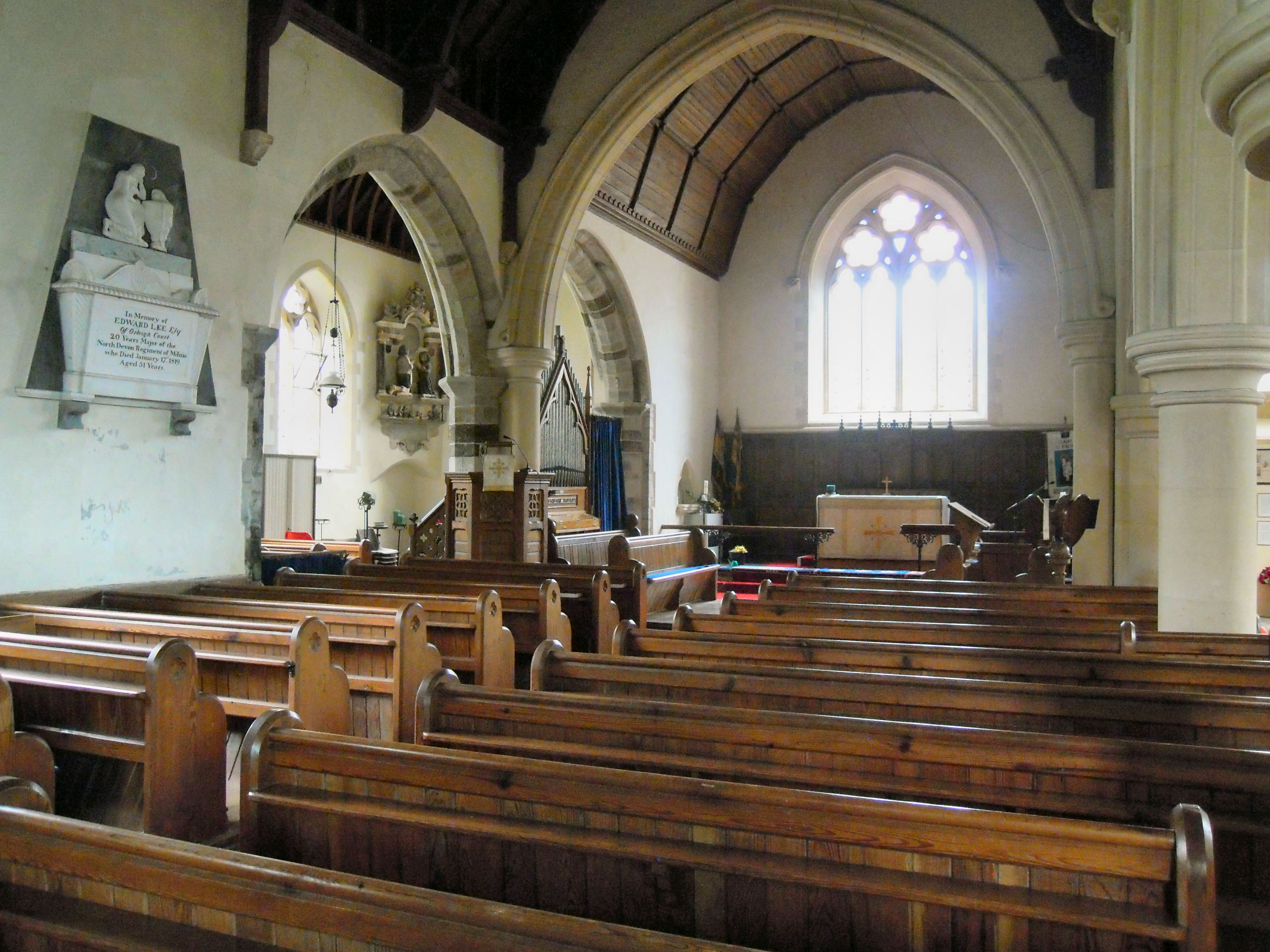 View from the nave towards the chancel with the Orleigh Chapel in the corner in the church of St Mary and St Benedict in Buckland Brewer